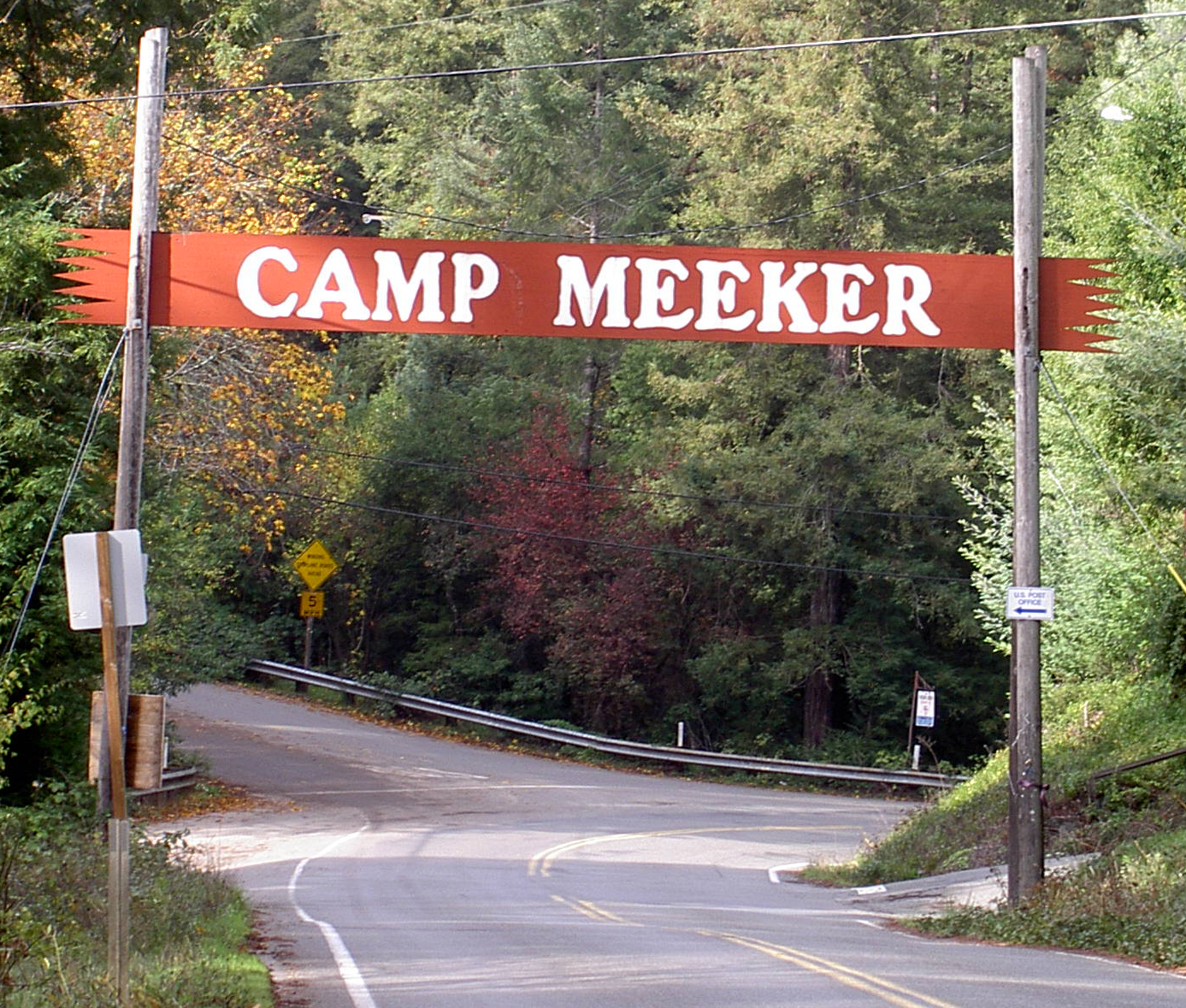 Welcome arch of Camp Meeker — northbound on the Bohemian Highway, in Sonoma County, California.